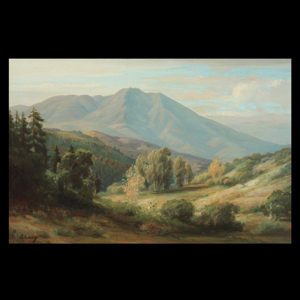 OSCAR V. LANGE "View of Mt. Tamalpais", (American 1854-1913) Oil on canvas laid to masonite.